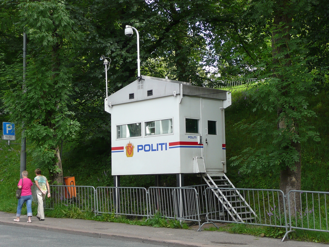 We know all about you yes we do